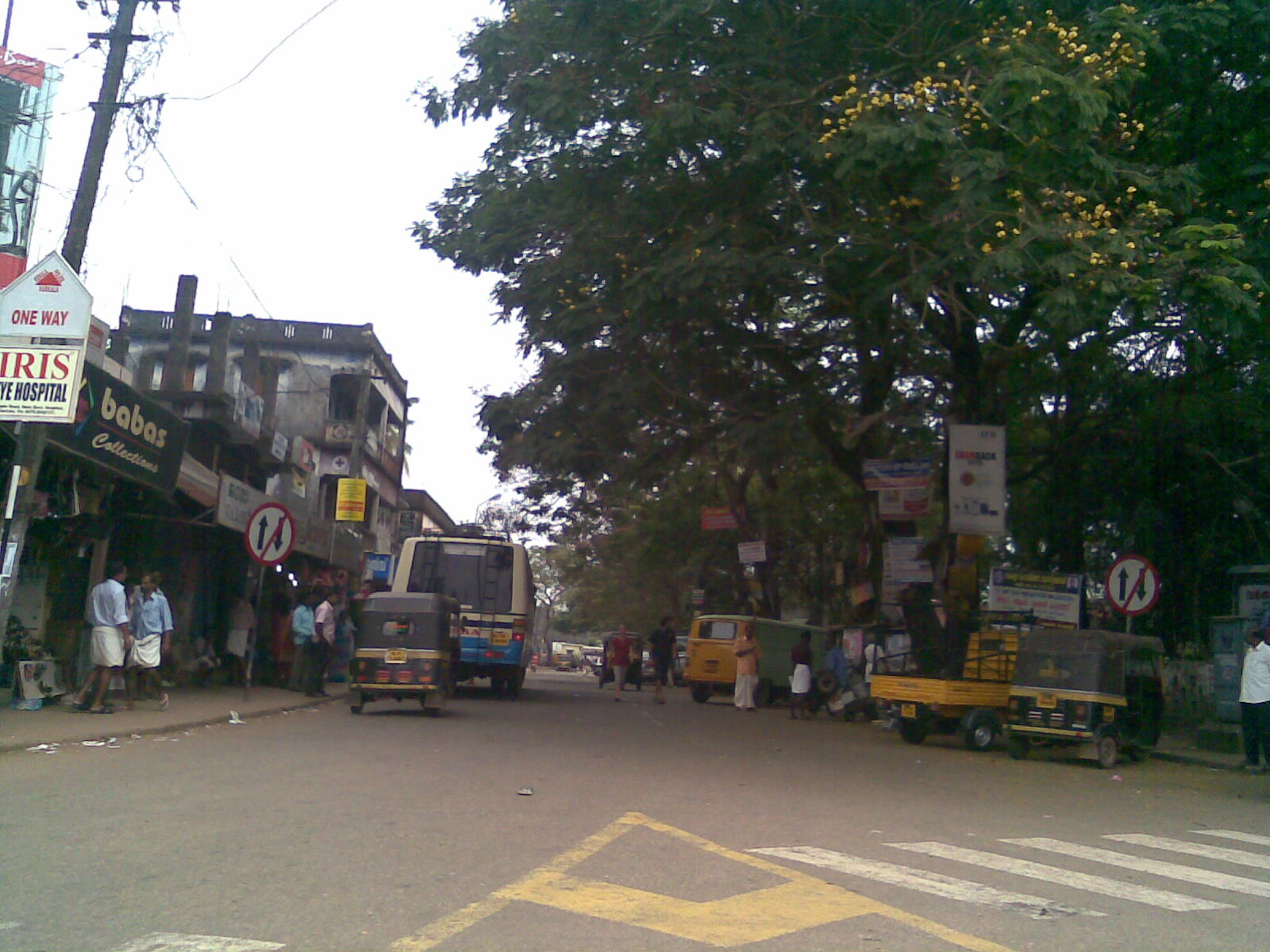 Varkala Maitanam town kallambalam Bus Stop